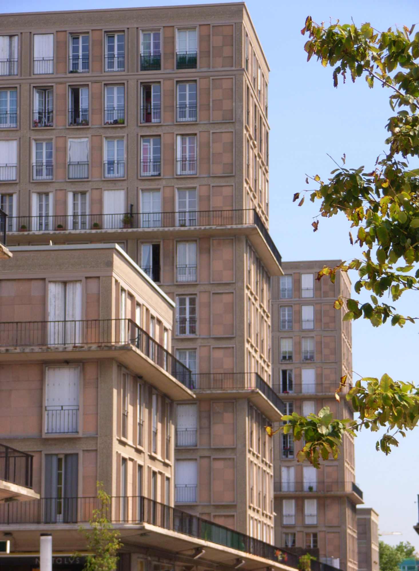 Centre Ville, Le Havre, FR